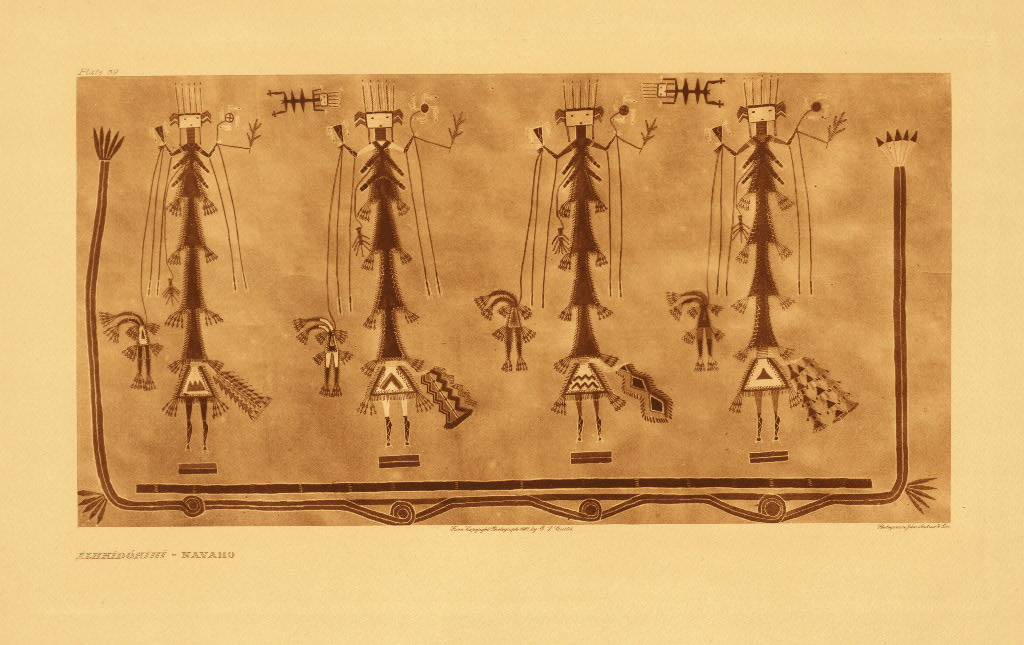 One of the four elaborate dry-paintings or sand altars employed in the rites of the Mountain Chant, a Navaho medicine ceremony of nine days' duration.